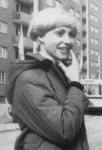 1976 Press Photo Tenley Albright, Erika Taylforth at Olympics in Innsbruck